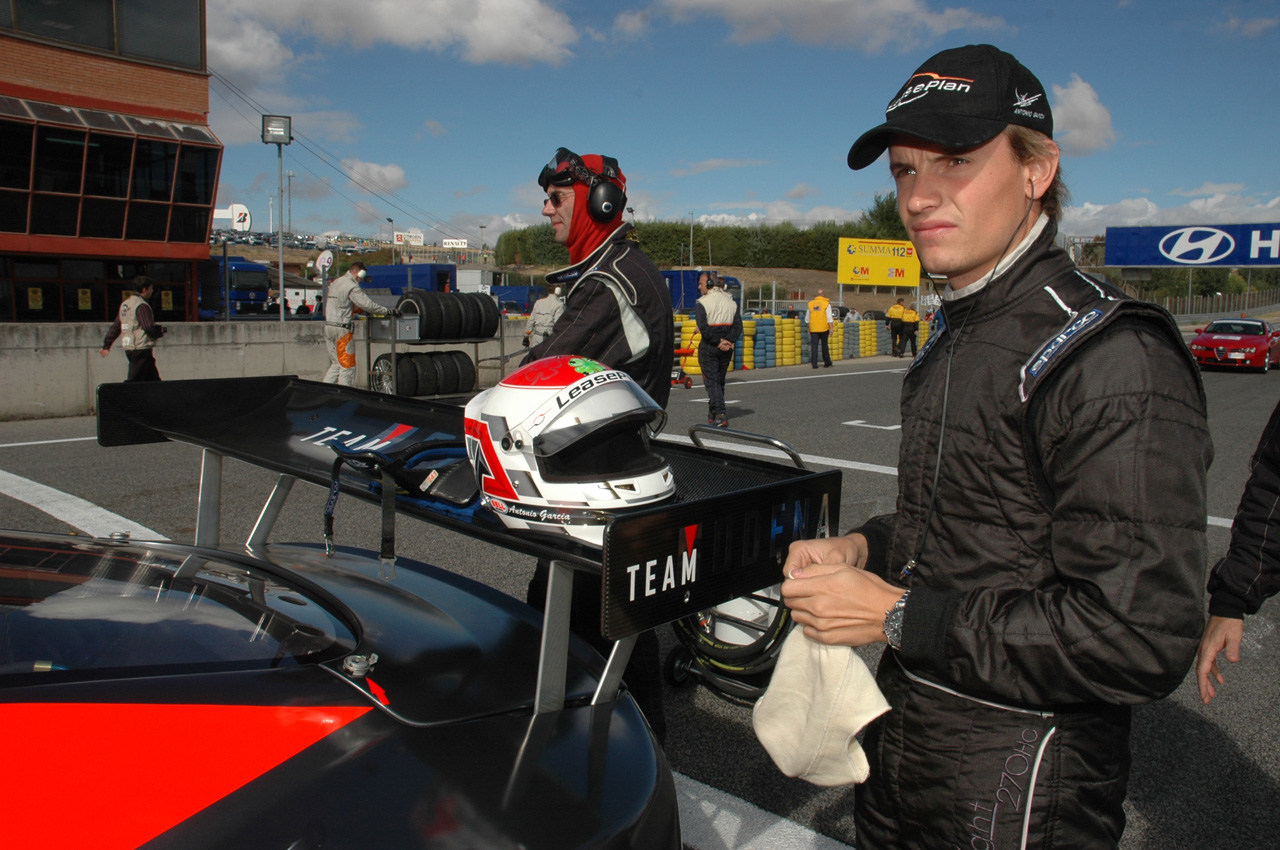 Antonio Garcia in Jarama Circuit